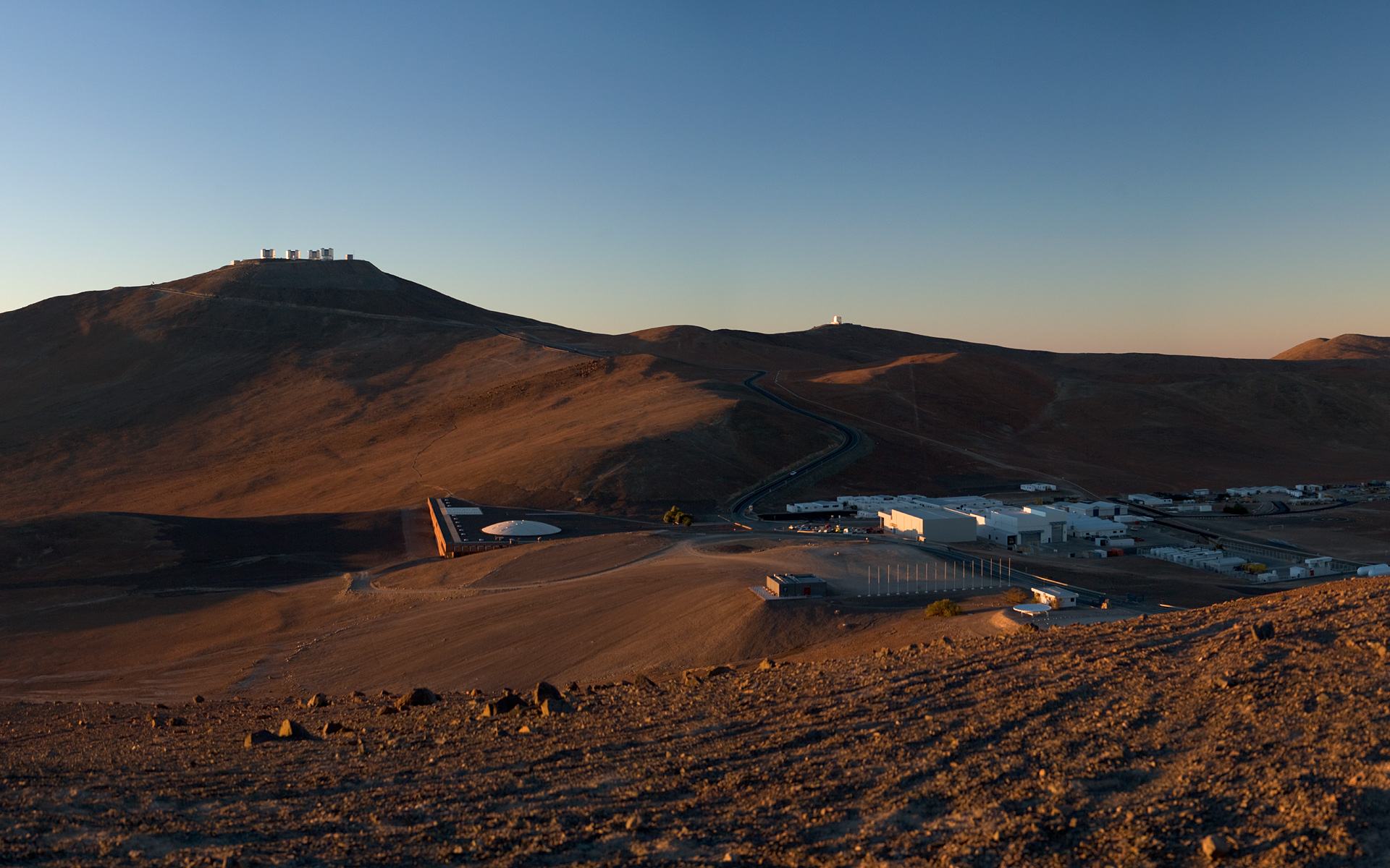 Overview of the Paranal Observatory including the basecamp and the Residencia.